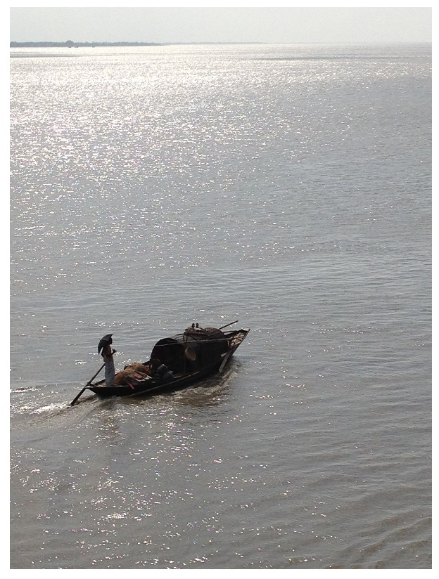 fishing boat in padma river